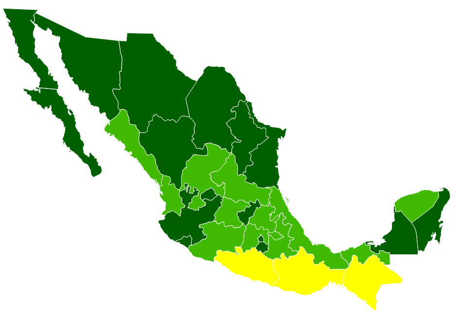 Mexican states coloured by HDI as reported in the UN Mexico 2007 Report at [1]. HDI greater than 0.80 HDI between 0.75 and 0.80 HDI between 0.70 and 0.75 The Federal District, usually reported as a separate division with the highest HDI (superior to 0.88) is grouped with the dark green states.